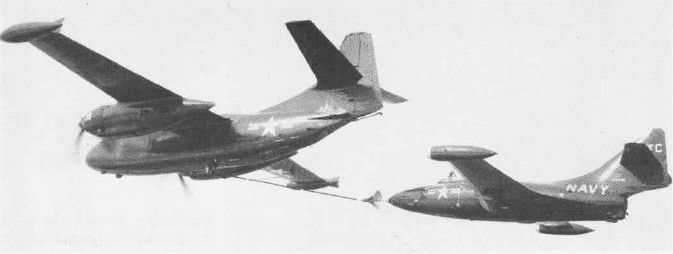 A North American AJ Savage of the Naval Air Test Center (NATC) at Naval Air Station Patuxent River, Maryland (USA), refueling a Grumman F9F Panther.